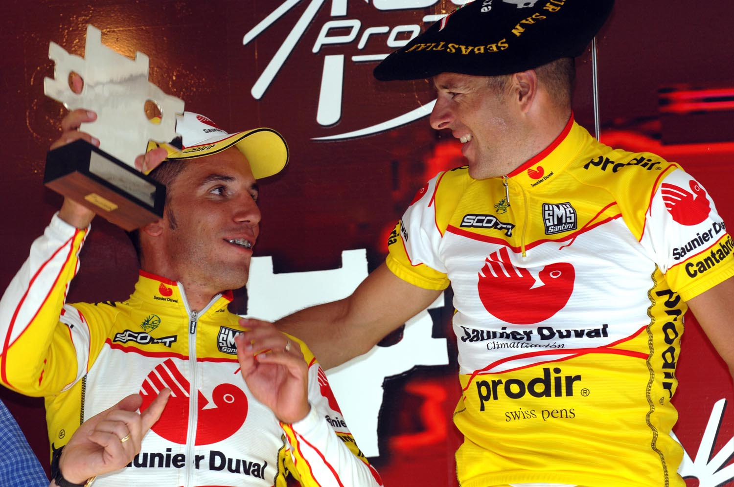 Winner Constantino Zaballa and Joaquim Rodriguez on the podium after the Clásica de San Sebastián in 2005